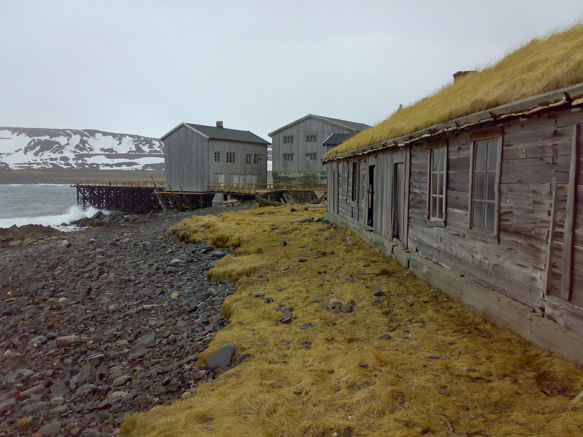 Weather-beaten wooden houses in Hamningsberg. Original caption: As far as it is possible to get in Norway - Hamningberg in East Finnmark; Hamningberg Væreieranlegg